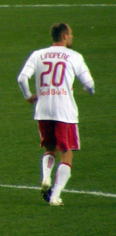 Joel Lindpere playing with New York